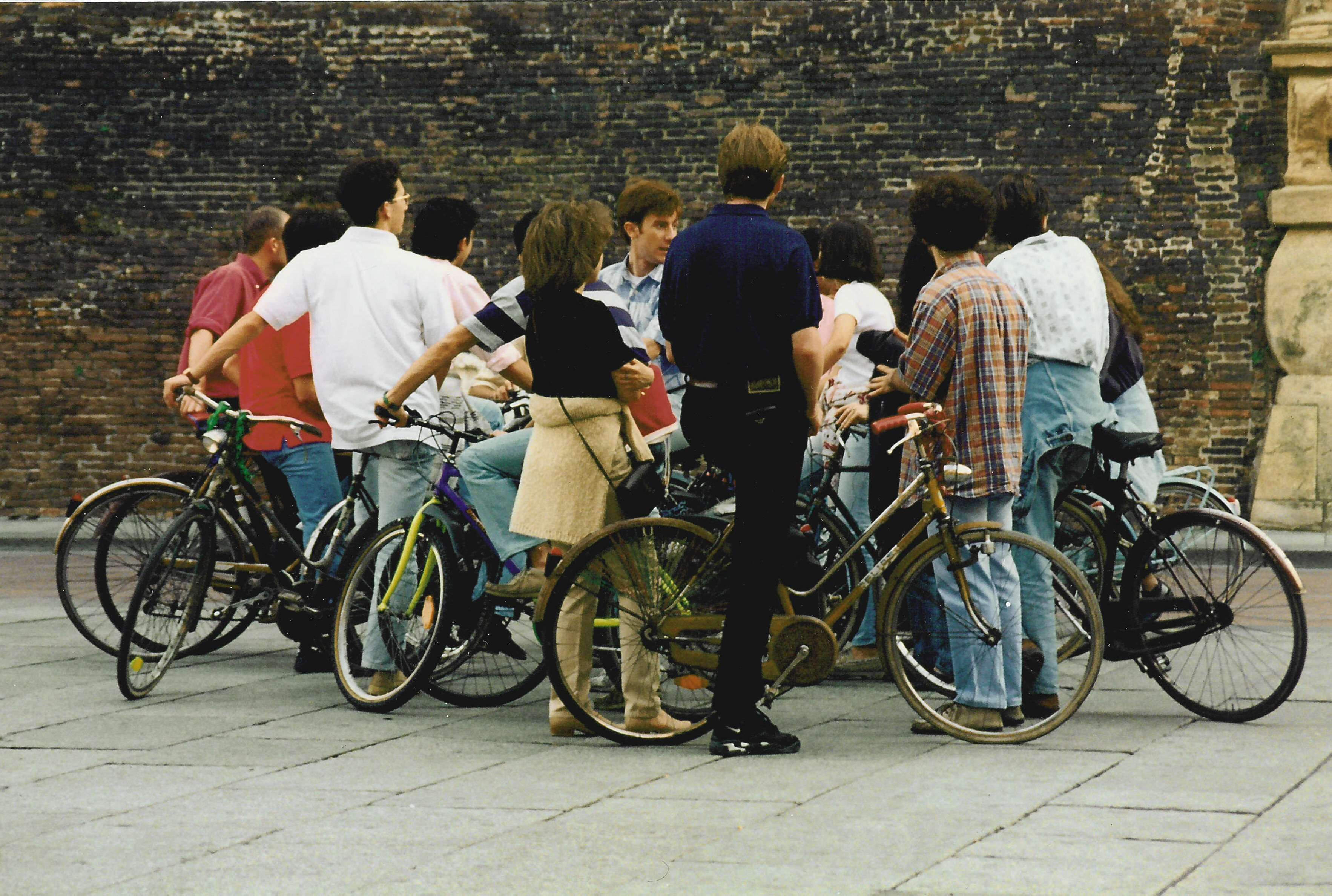 Young people on bicycles gather on the Piazza Maggiore of Bologna, Italy.